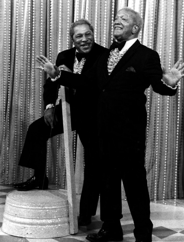 Photo of Redd Foxx as Fred Sanford and Don Bexley as his friend, Bubba, from the television show Sanford and Son. In this episode, Fred and Bubba attend a taping of The Gong Show, prompting them to try out for it.